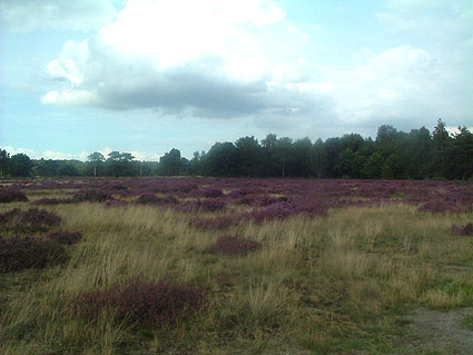 Reggie Naus, 2004